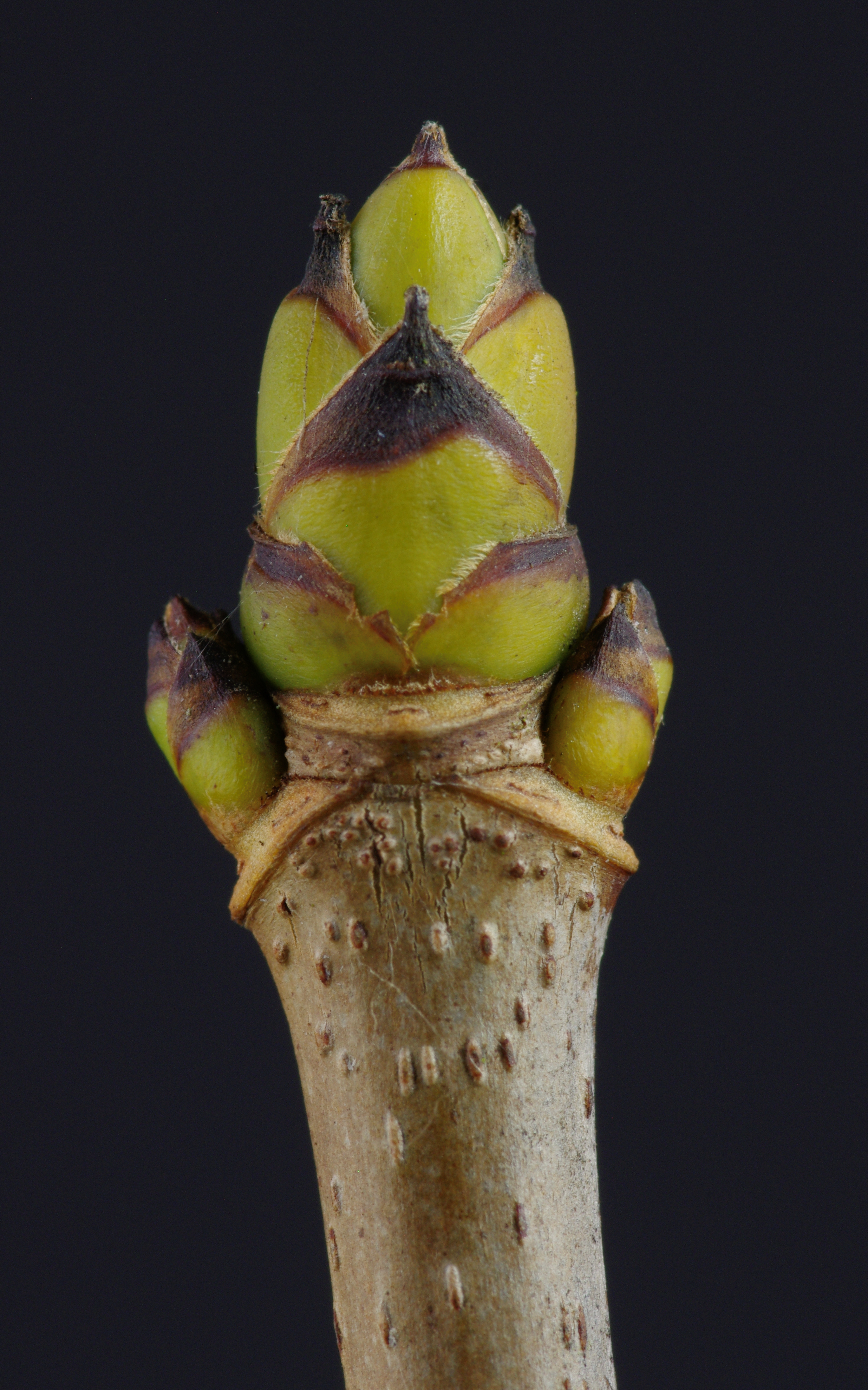 Terminal buds of the sycamore maple (Acer pseudoplatanus)